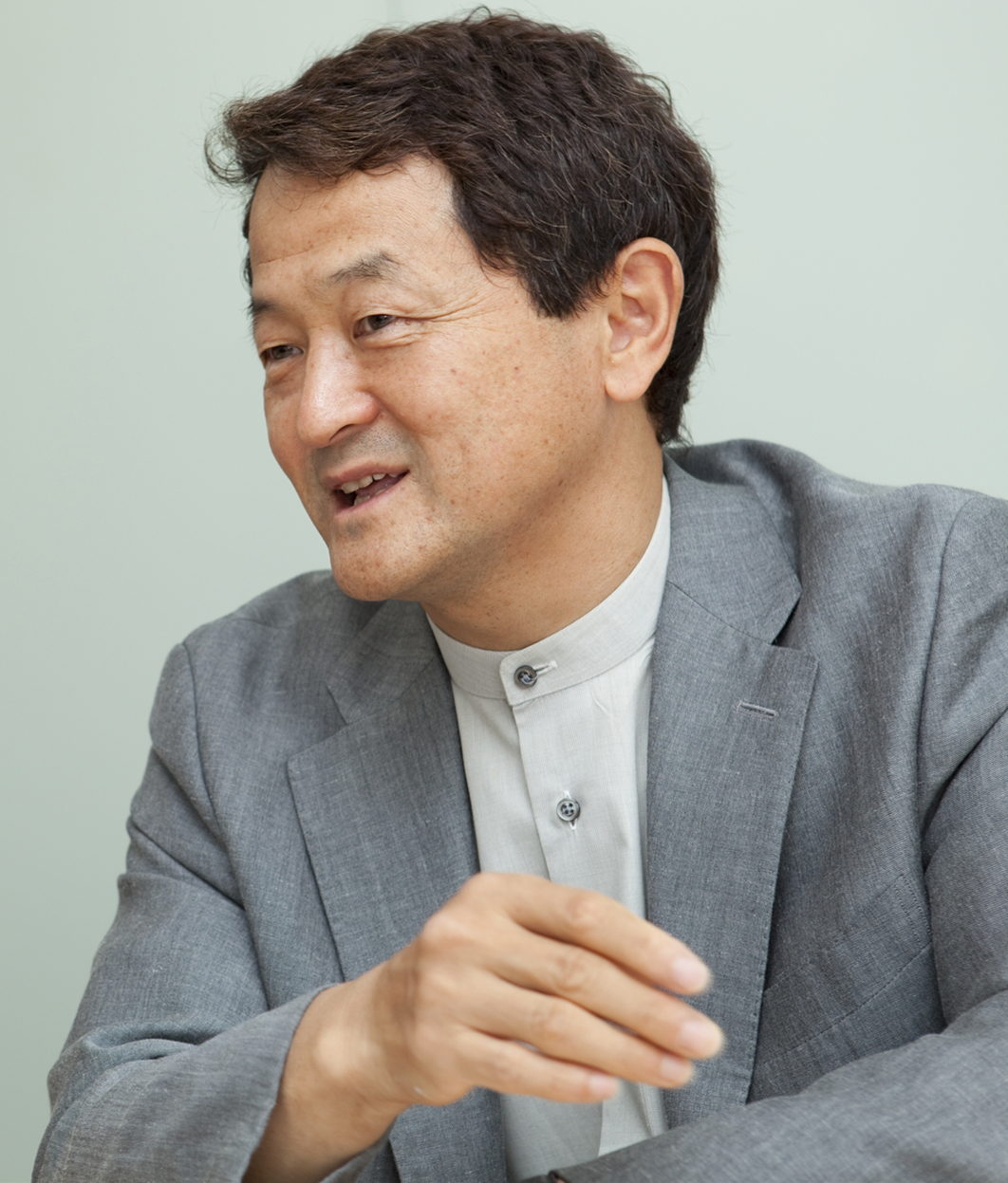 Architect Jun Mitsui's portrait